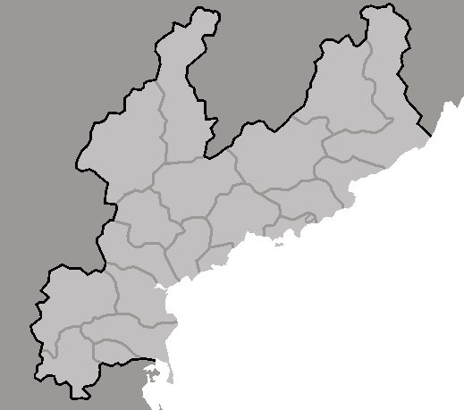 Map of Hamgyong-namdo, DPRK, 2006